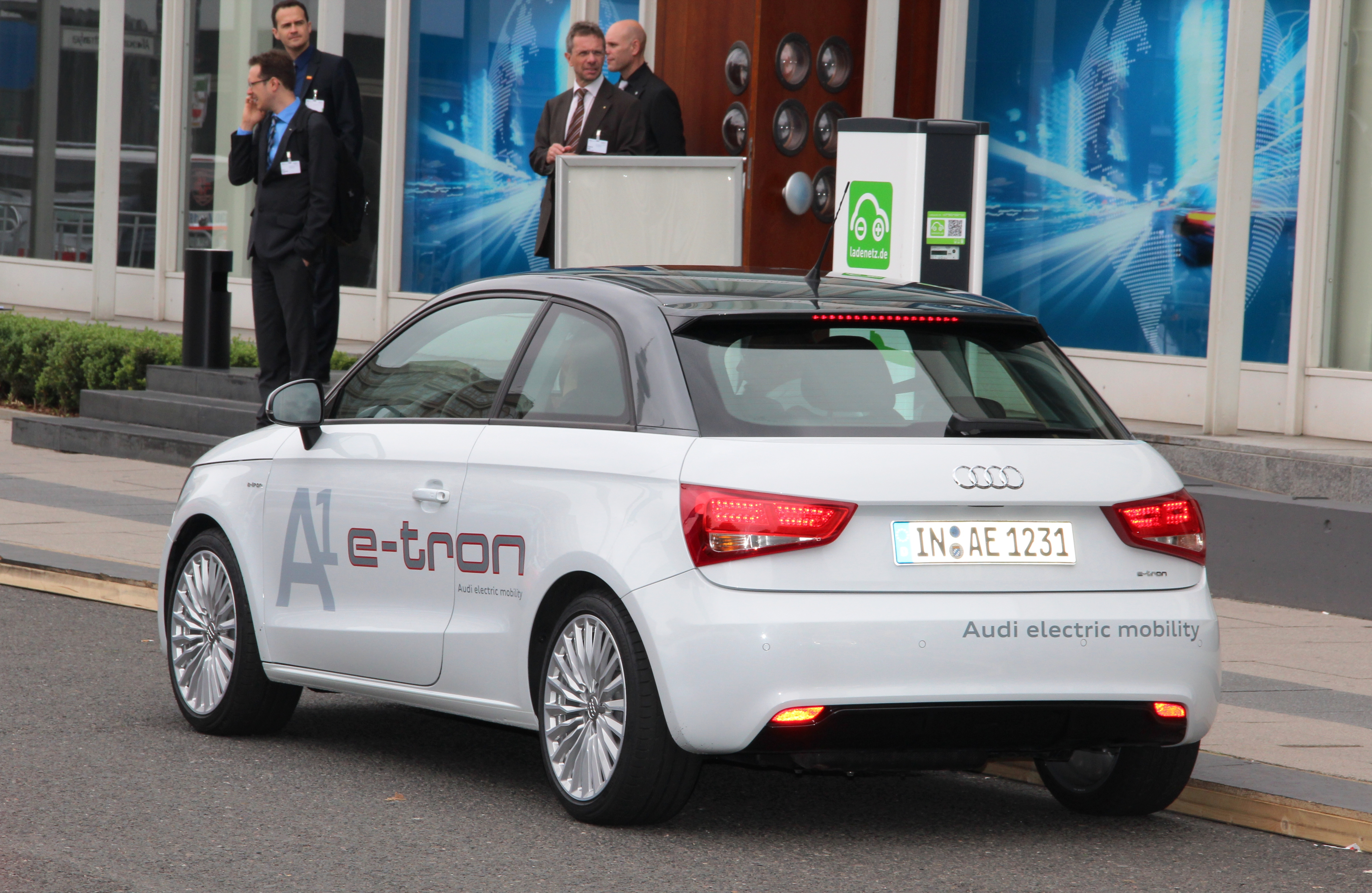 AUDI A1 e-tron - Electric Vehicle, Berlin 2013